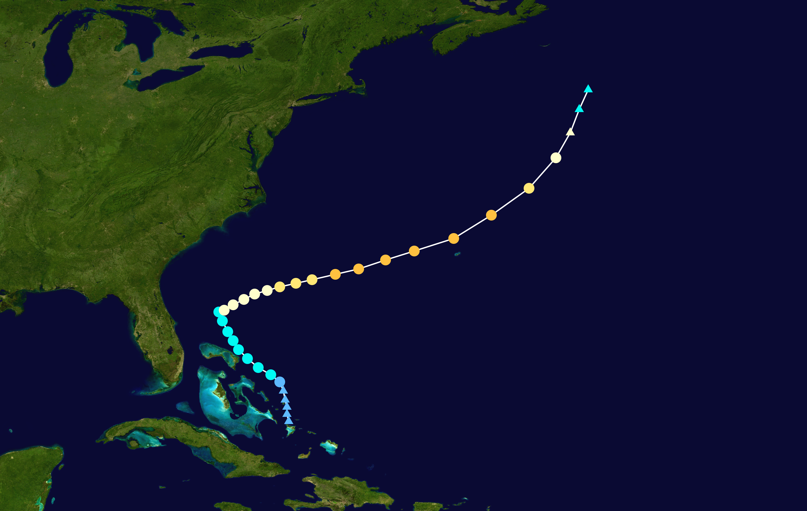 Track map of Hurricane Humberto of the 2019 Atlantic hurricane season. The points show the location of the storm at 6-hour intervals. The colour represents the storm's maximum sustained wind speeds as classified in the Saffir–Simpson scale (see below), and the shape of the data points represent the nature of the storm, according to the legend below. Saffir–Simpson scale Tropical depression≤38 mph≤62 km/h Category 3111–129 mph178–208 km/h Tropical storm39–73 mph63–118 km/h Category 4130–156 mph209–251 km/h Category 174–95 mph119–153 km/h Category 5≥157 mph≥252 km/h Category 296–110 mph154–177 km/h Unknown Storm type Tropical cyclone Subtropical cyclone Extratropical cyclone / Remnant low / Tropical disturbance / Monsoon depression